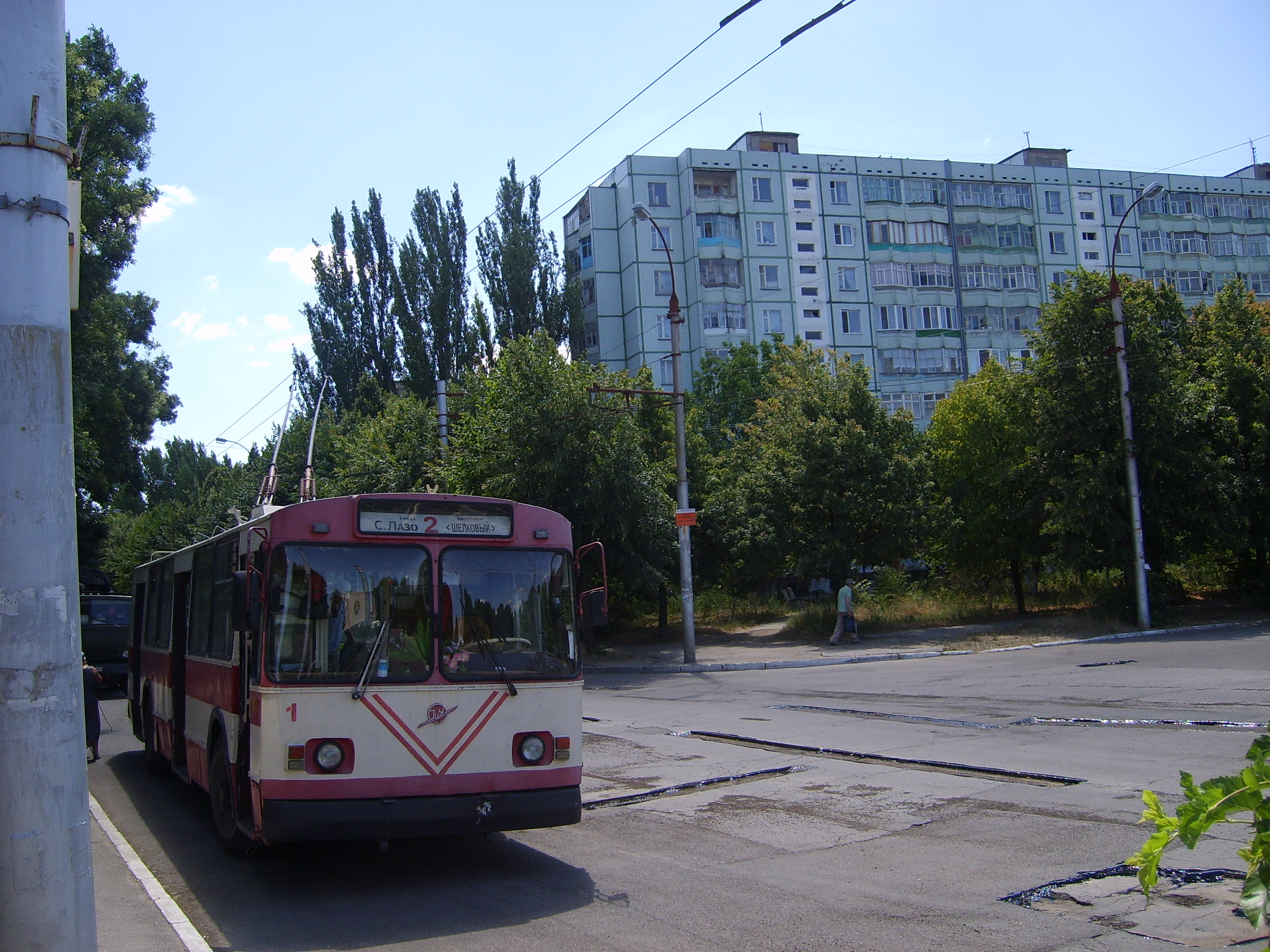 Trolleybus in Bender, Moldova, at a final stop "Mikrorayou Shelkovsky"